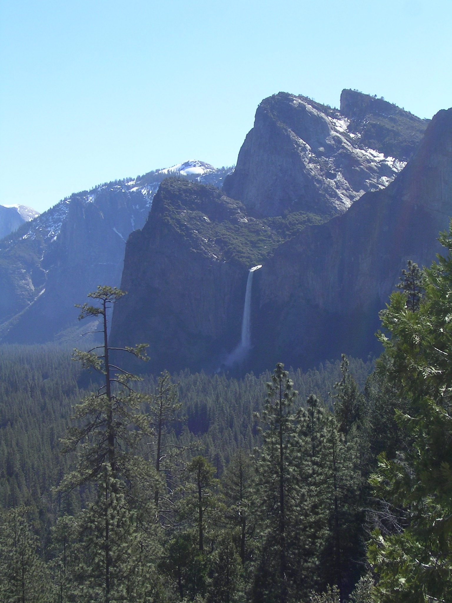 Yosemite National Park, California , USA : Bridalveil Falls